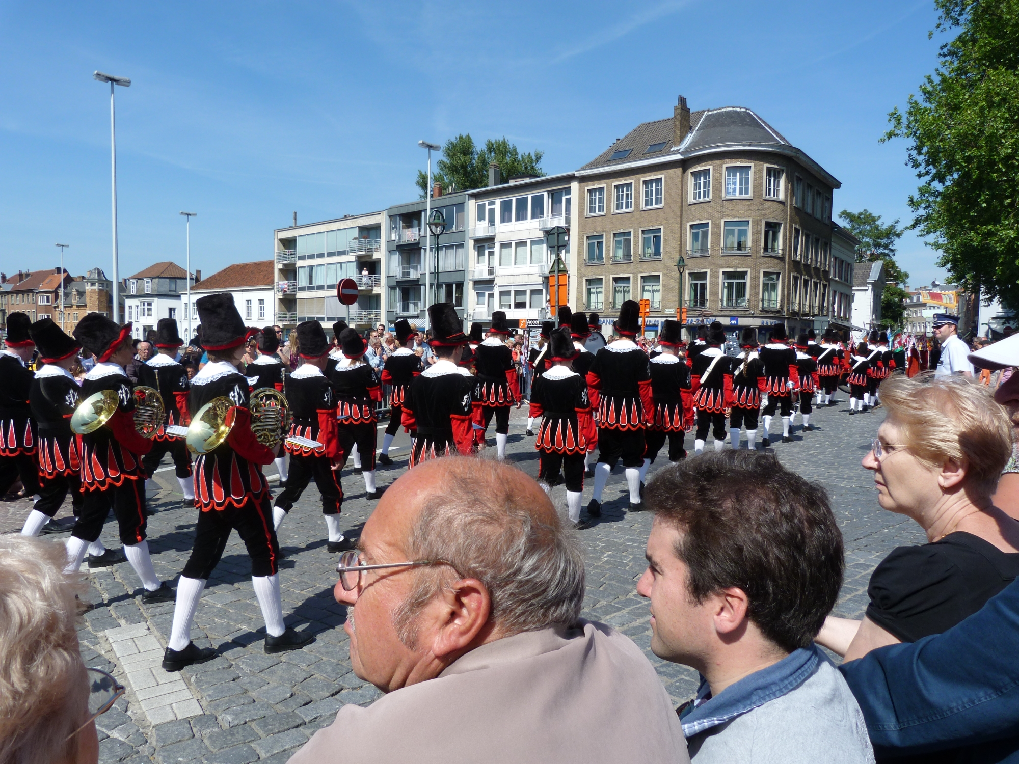 Procession of the Holy Blood, Bruges